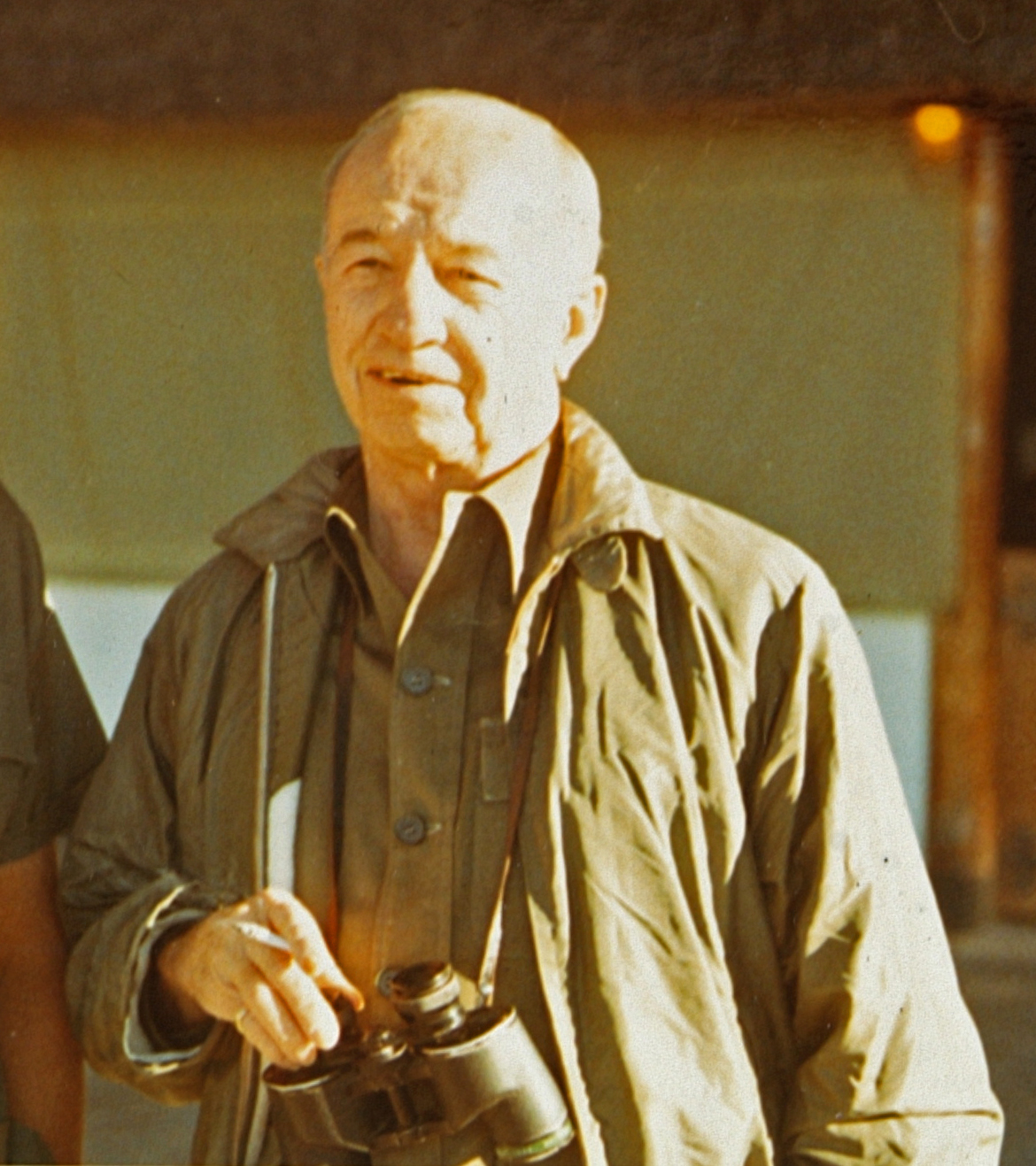 On safari 1970s